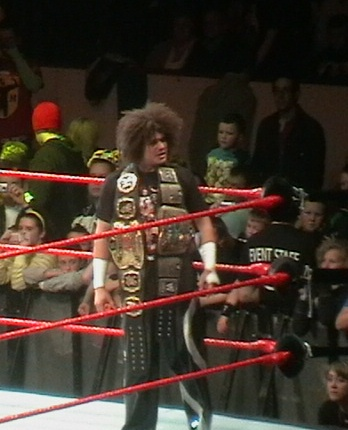 A cropped version of File:Carlitotag.JPG, to get a better view of Carlito with the Unified Tag Team Championship